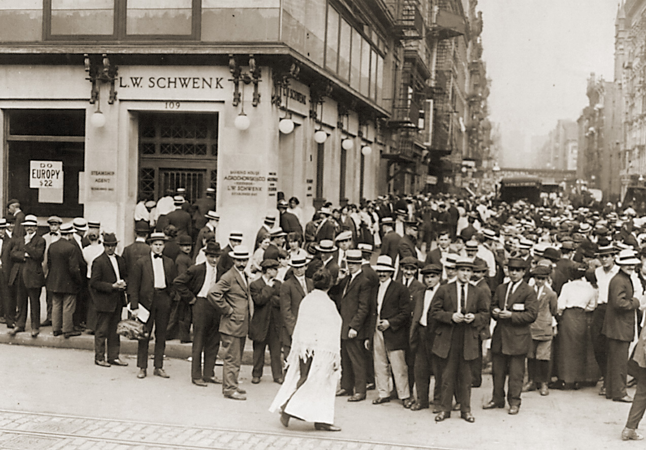 Depositors run on a failure New York City bank, July 24, 1914.